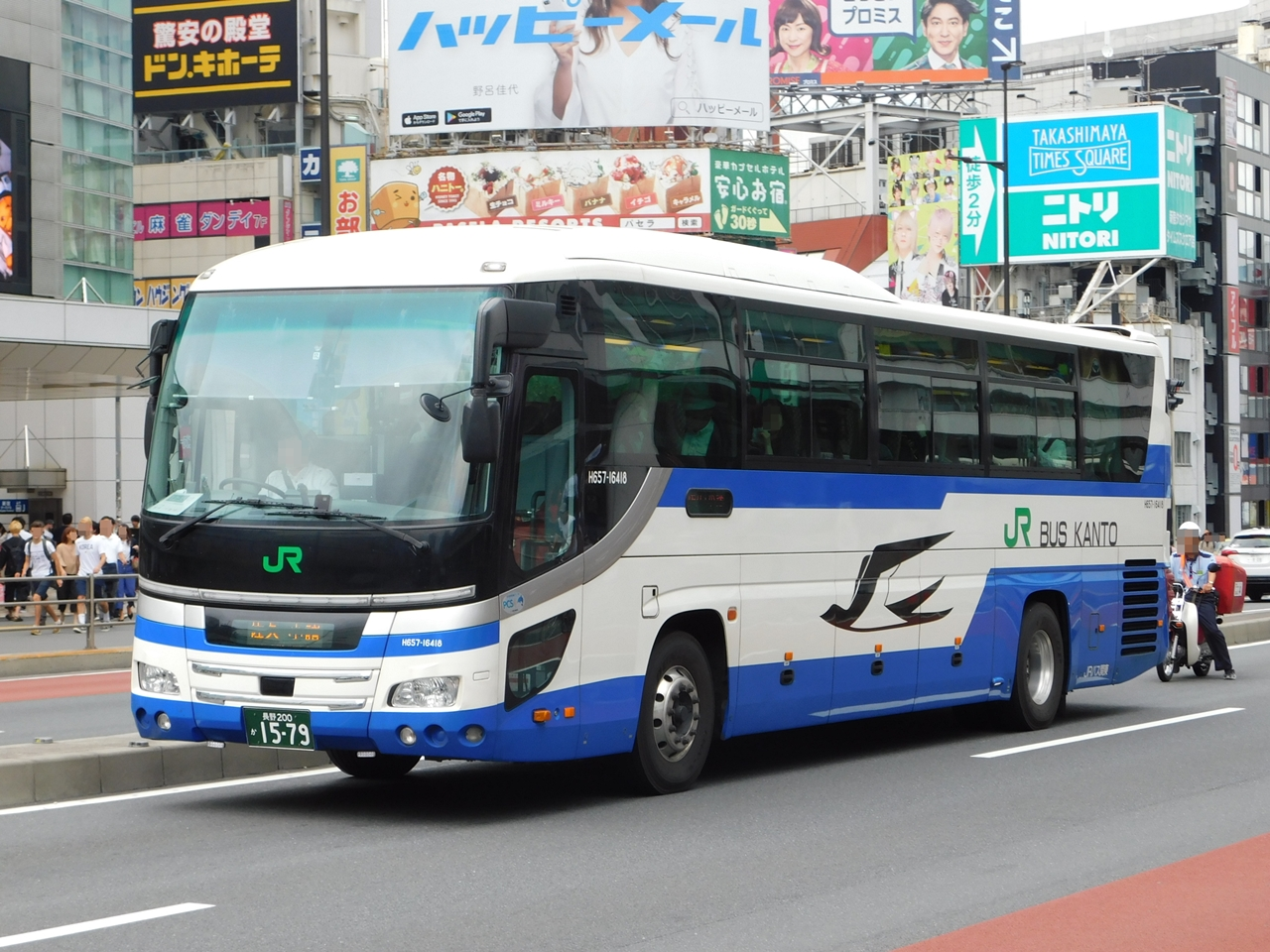 JR bus Kanto Hino S'elega (QRG-RU1ESBA)highwaybus "Shinjuku-Saku,Komoro"